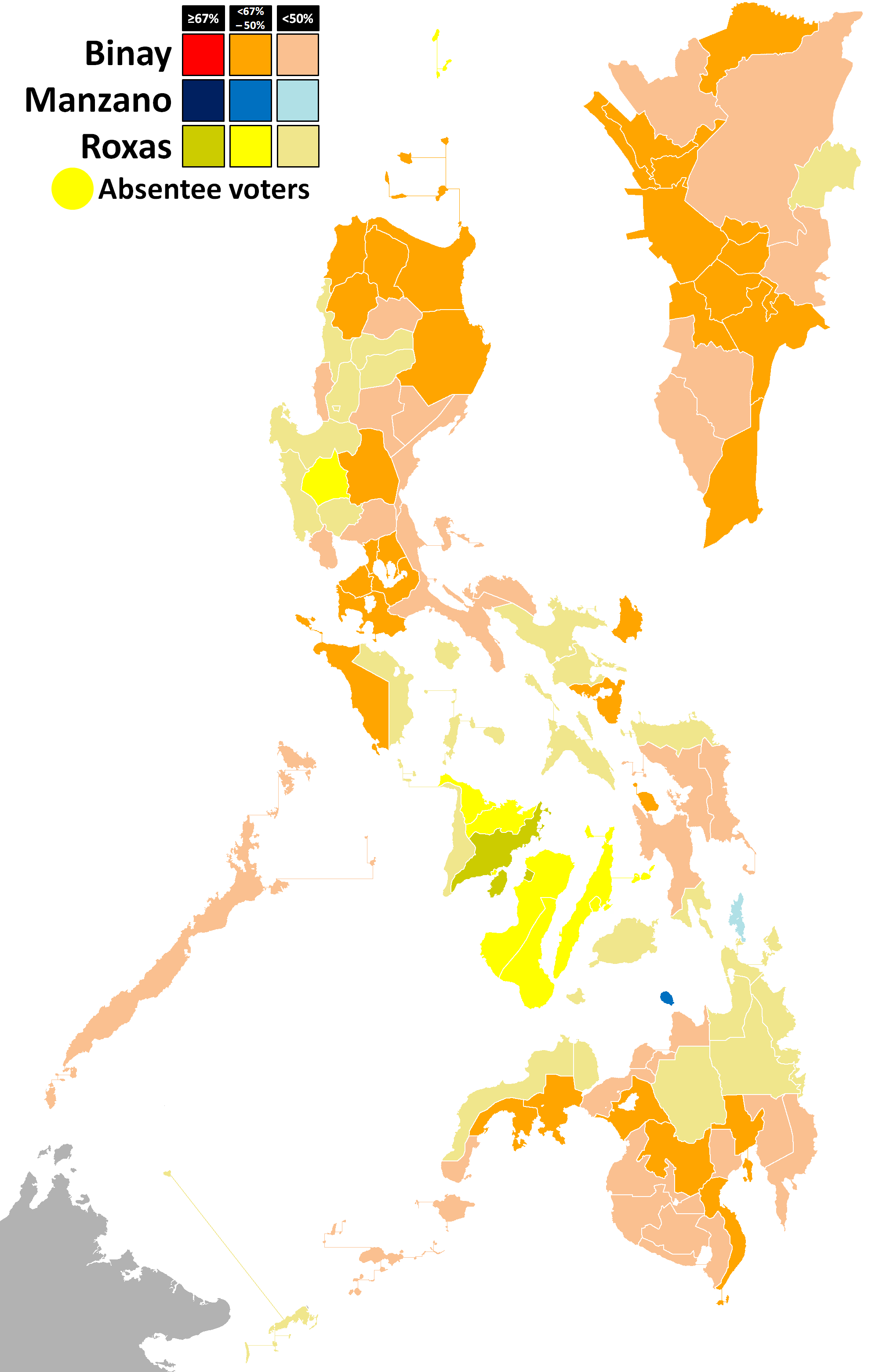 Result of the Philippine vice presidential election, 2010.